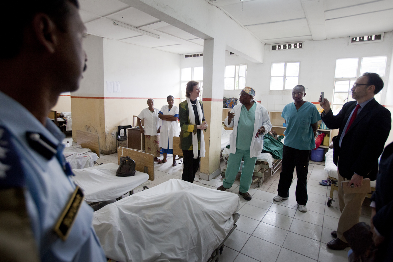 Mary Robinson, UN Sepecial Envoy for the Great Lake Region, is guided through the Heal Africa's section for victims of sexual violence in Goma, the 30th of April 2013.